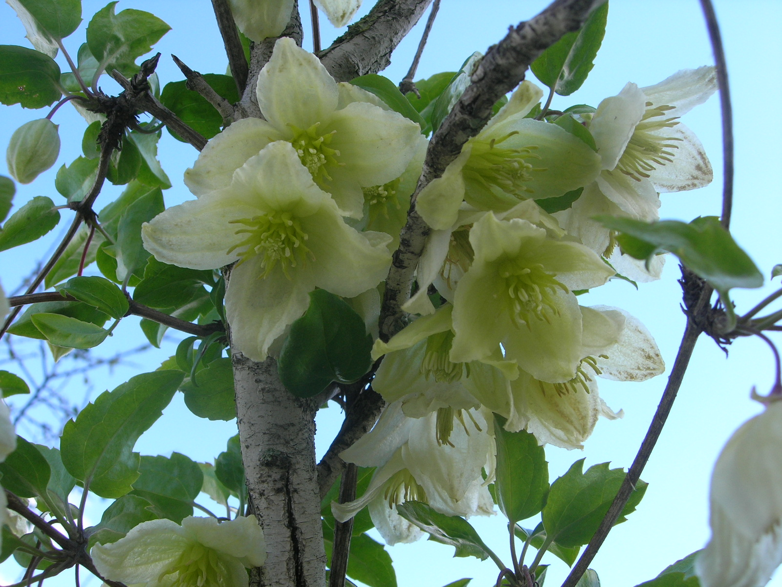 Clematis cirrhosa, flowers; Haela valley, Israel